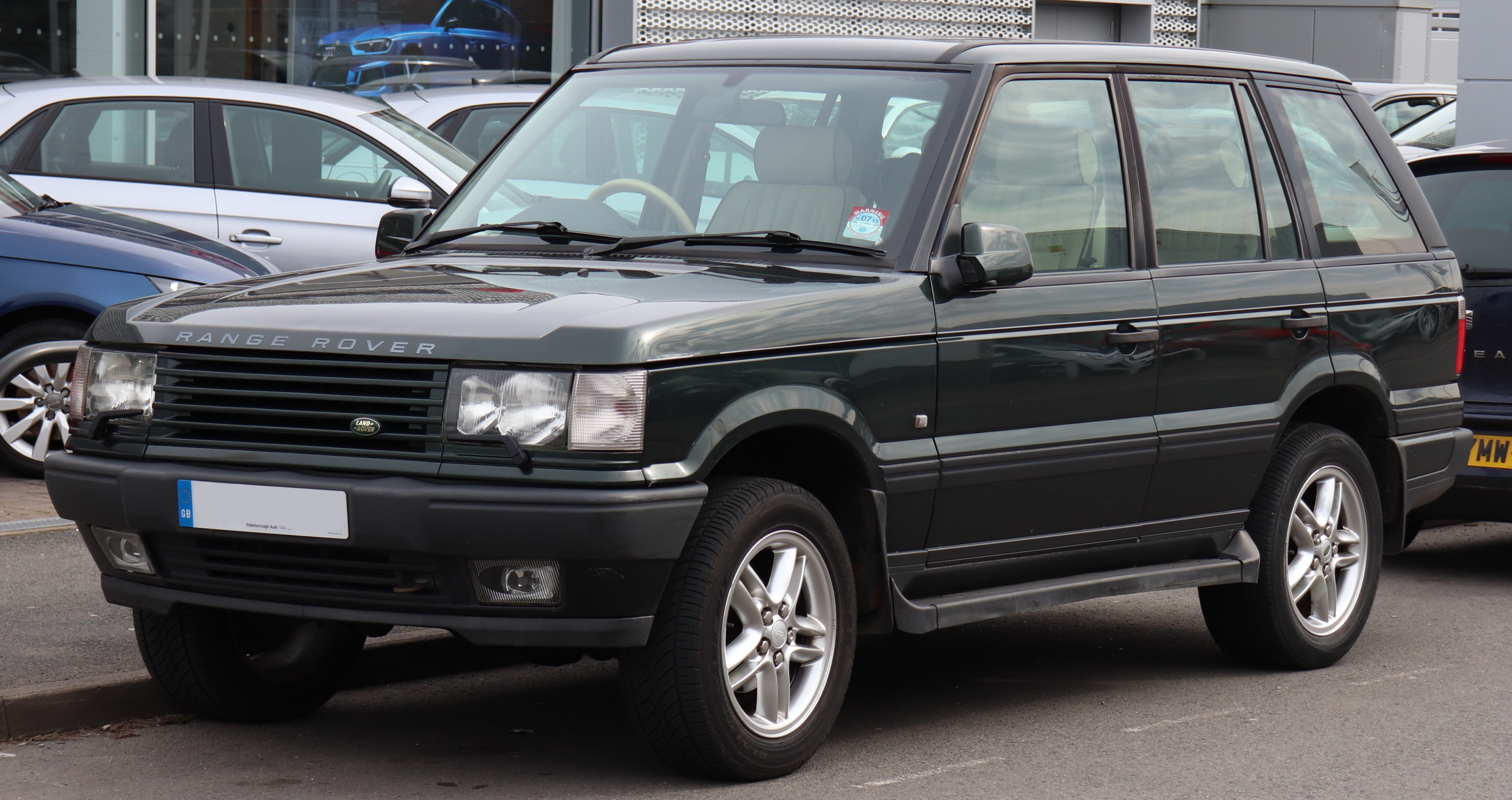 2000 Land Rover Range Rover Vogue Automatic 4.6 Front Taken in Stratford-upon-Avon